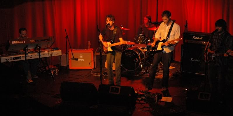 The Alice Rose live at Ruta Maya, Austin, Texas, 2006.